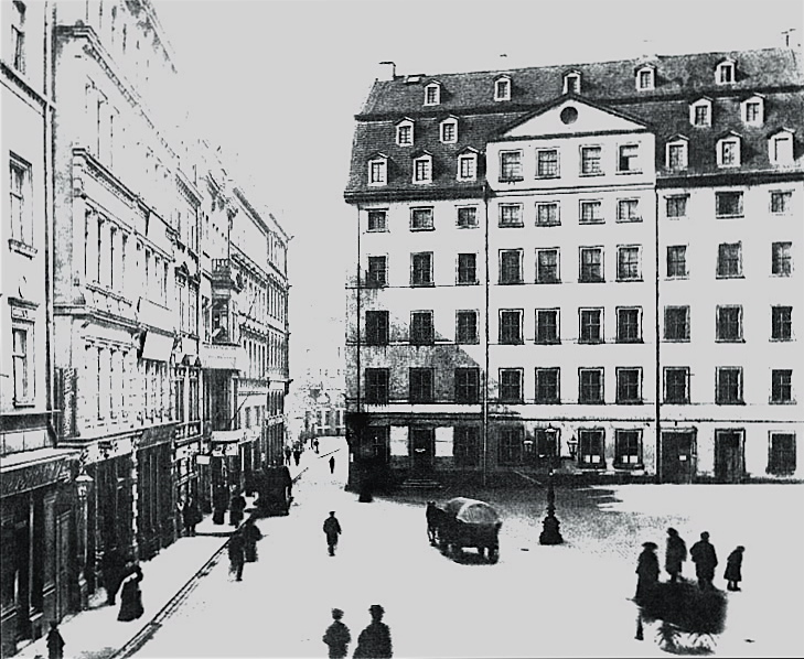 Thomasschule in Leipzig, taken before its demolition in 1902. Bach's apartment was in the left side of the house.